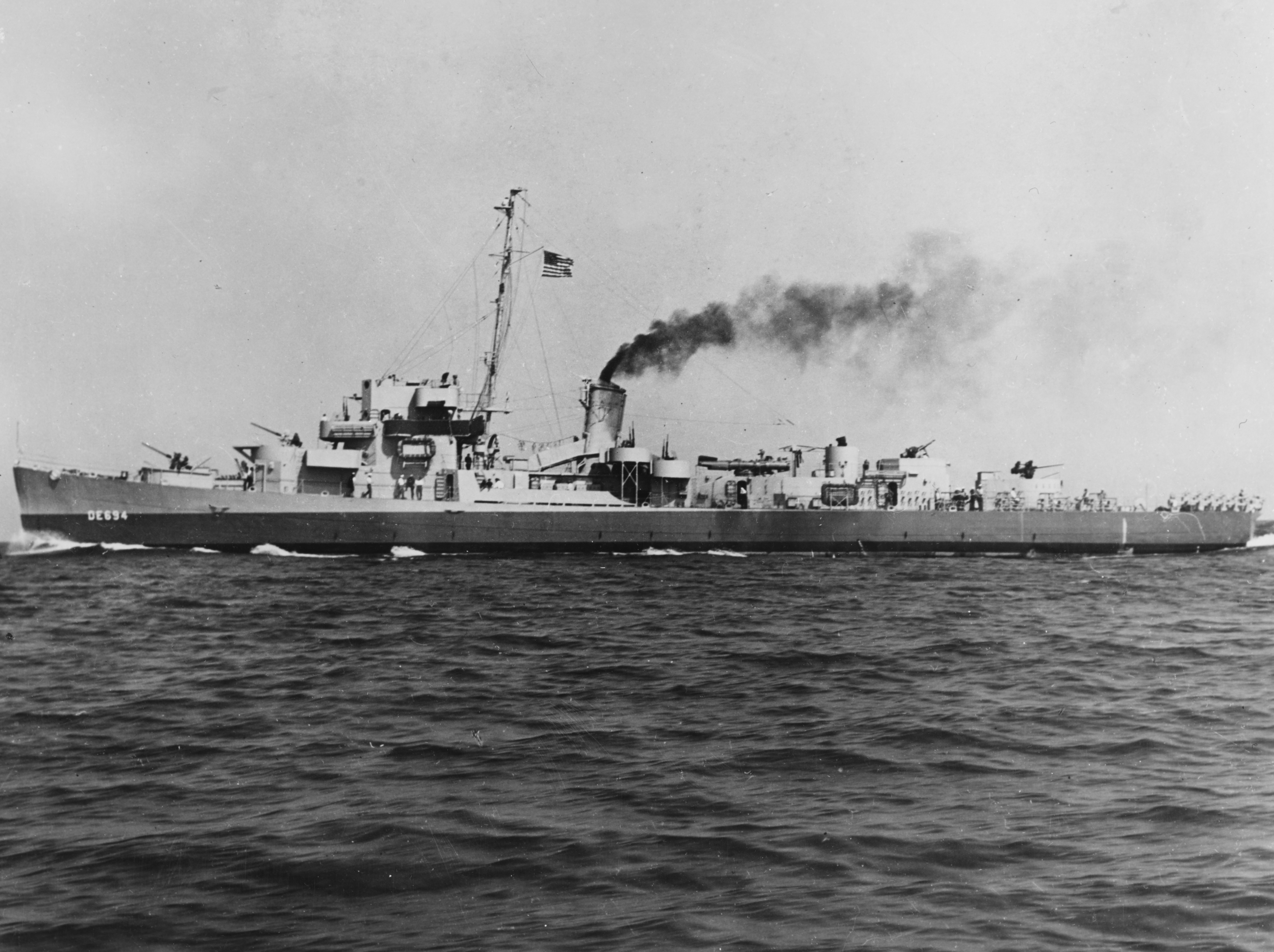 The U.S. Navy destroyer escort USS Bunch (DE-694) running trials in Lake Huron on 25 July 1943.